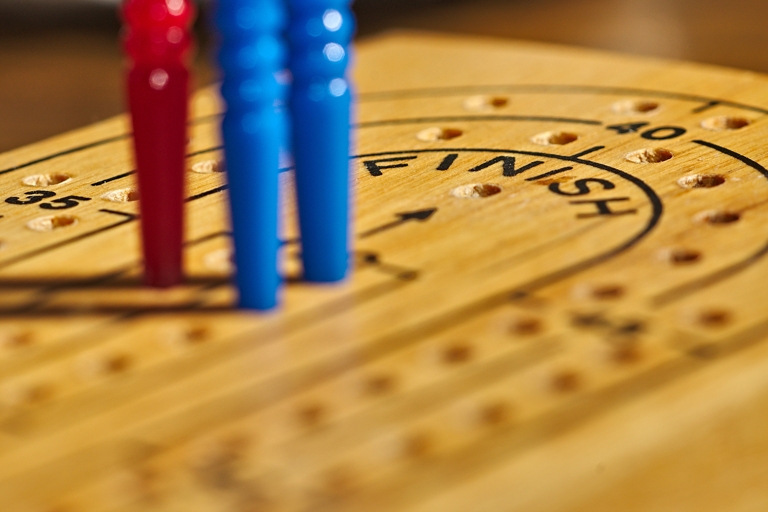 Cribbage board with pegs